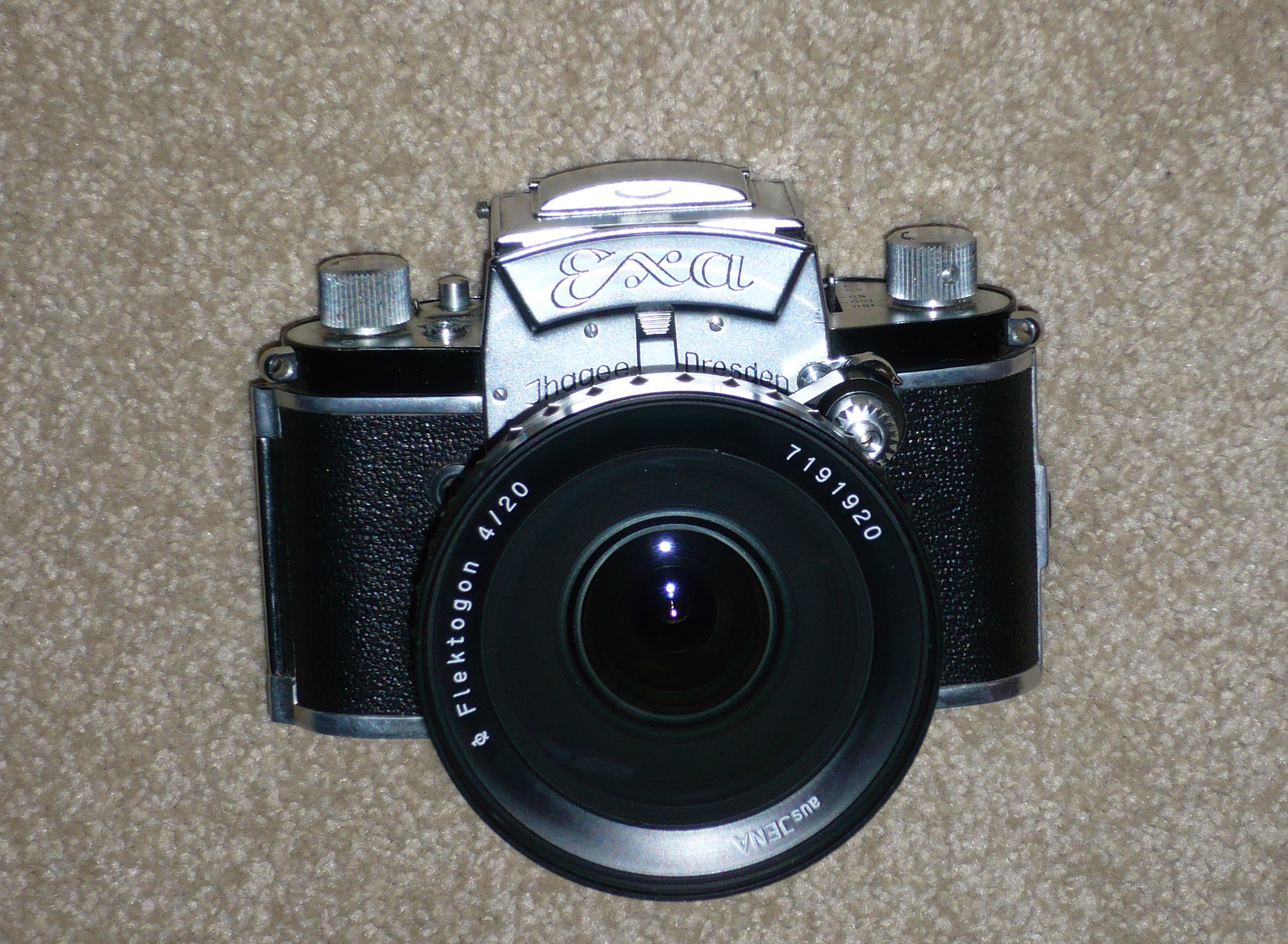 CZJ Flektogon 20mm /4 ultra wide angle lens